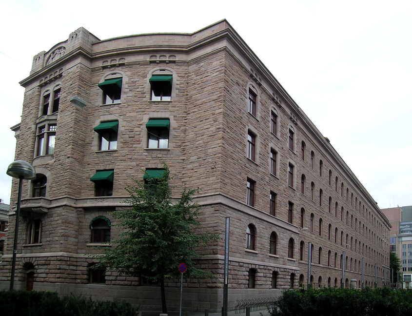 Norwegian Ministry of Finance, Akergata 42, Oslo, Norway. Building erected 1898-1904. Architects: Stener Lenschow and Henrik Bull.